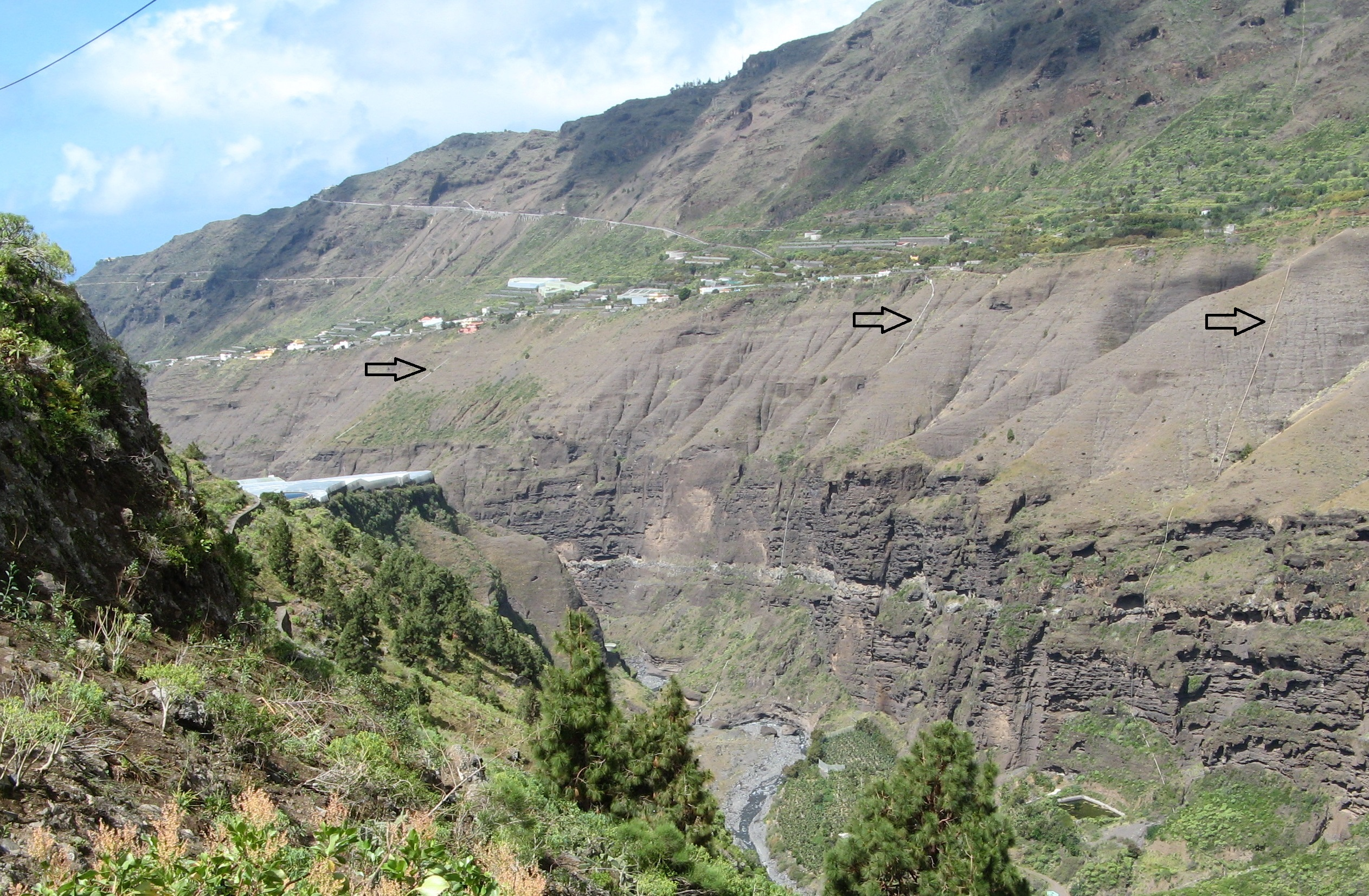 Three pipelines in the Barranco de Las Angustias